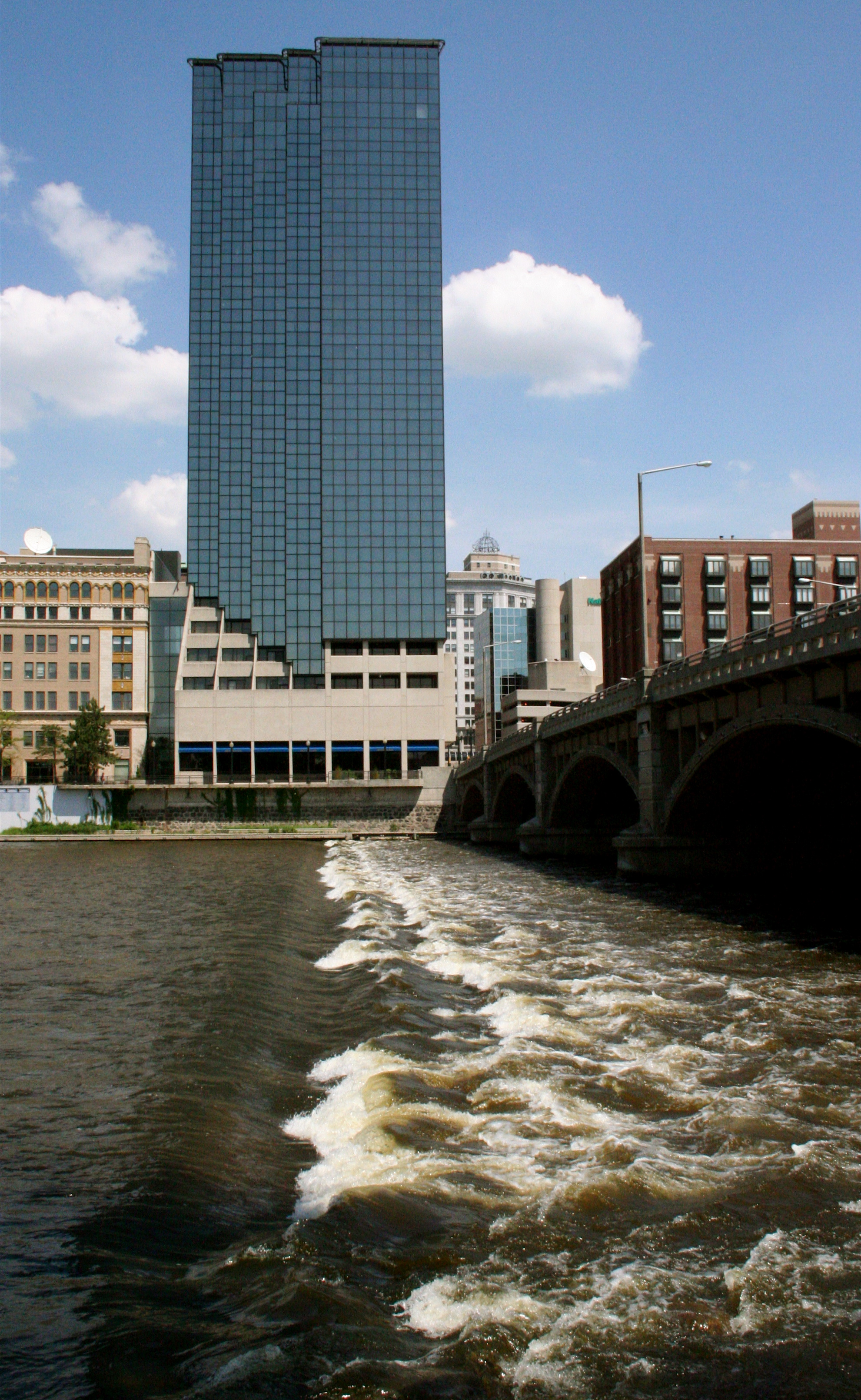 The Grand River with the Amway Hotel and Pearl Street Bridge in Grand Rapids, Michigan.